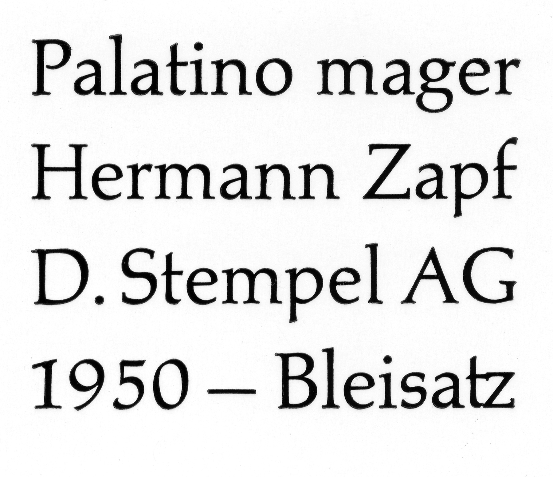 Letterpress print of Palatino regular. Font designer: Hermann Zapf. Foundry: D. Stempel AG, Frankfurt/Main First release date: 1950